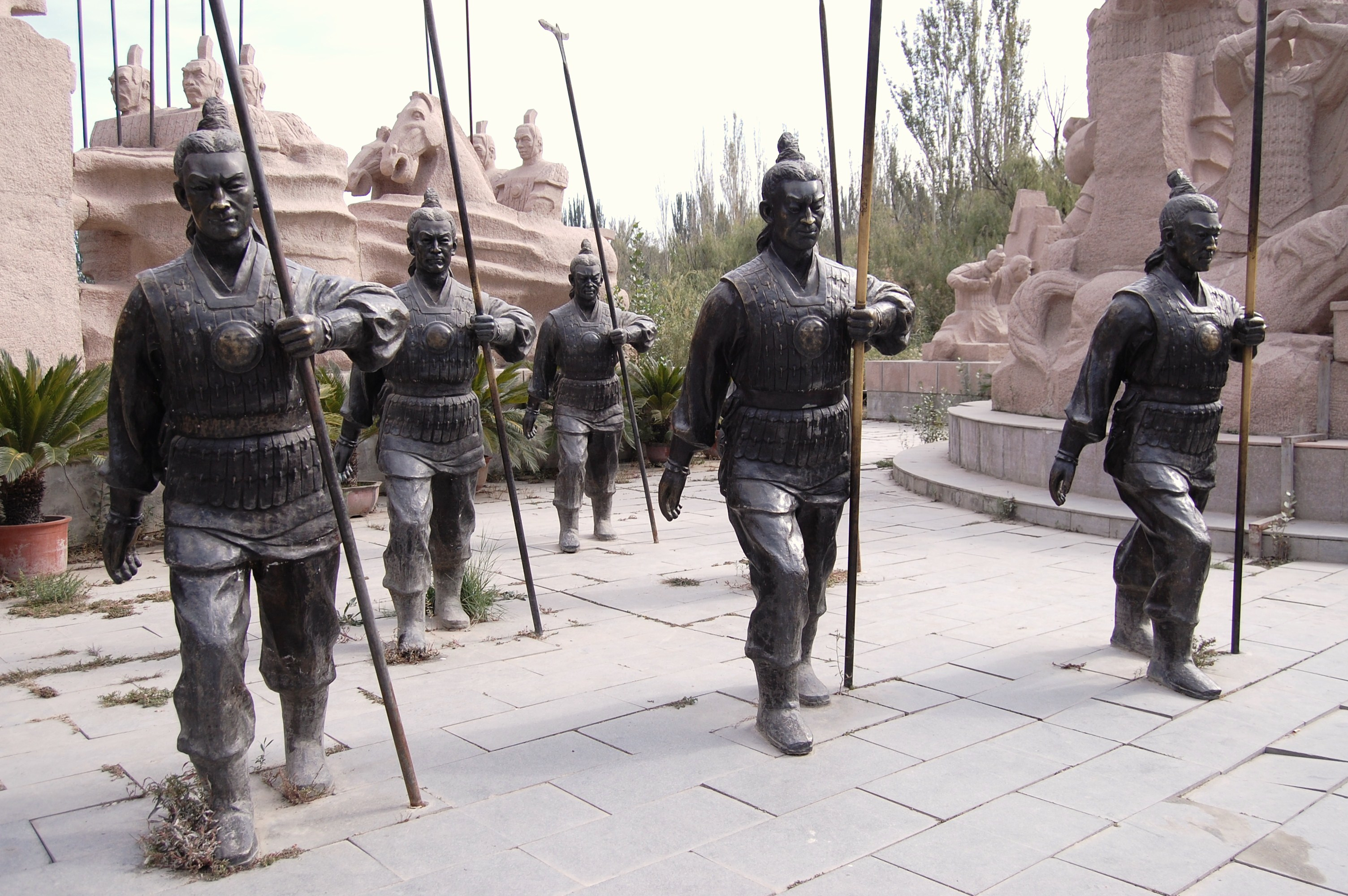 Soldiers of general Huo Qubing; statues in Jiuquan, Gansu Province, China